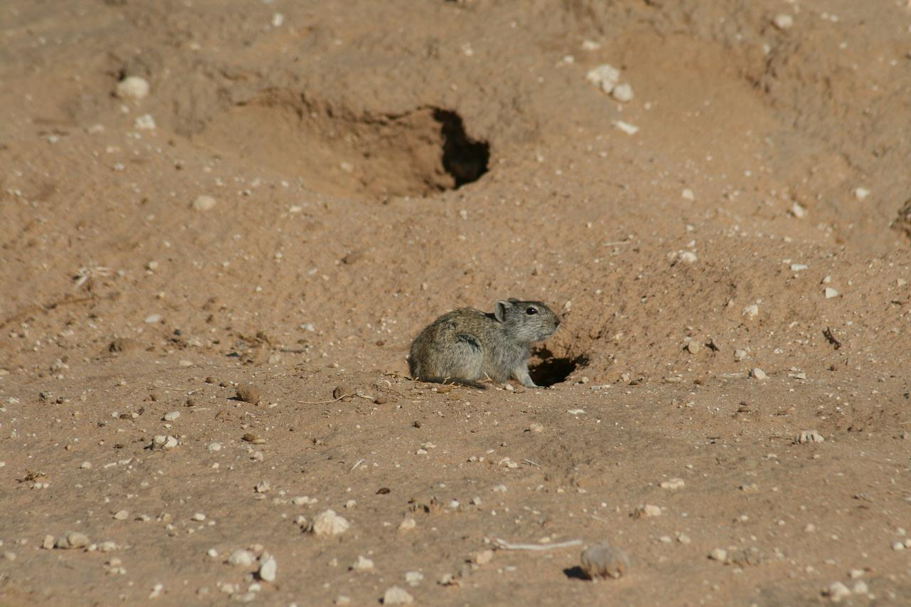 Woosnam's Desert Rat (Zelotomys woosnami)